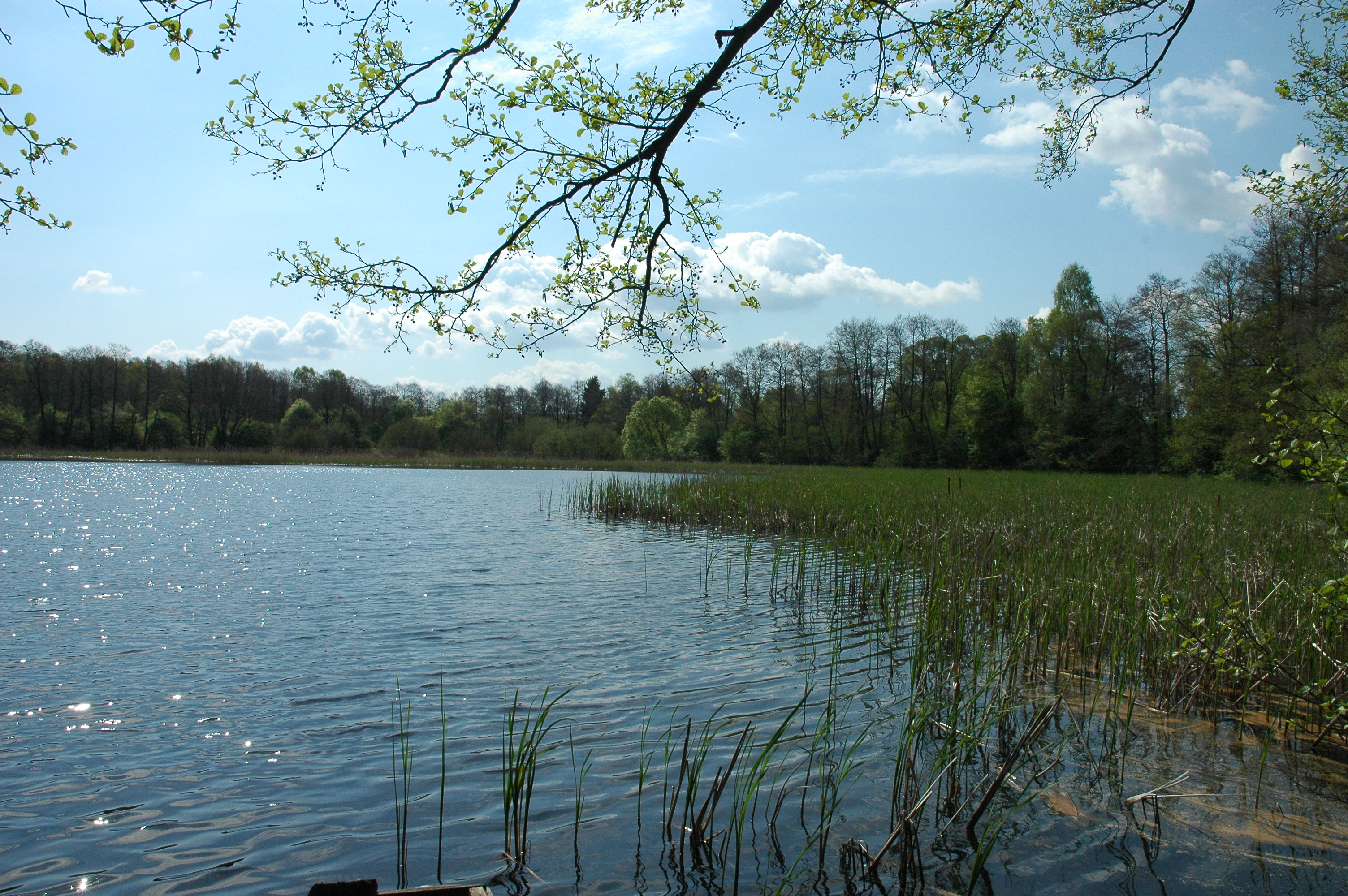 Natural monument Mlýnský rybník a rybník Rohlík in Chrudim District, Czech Republic